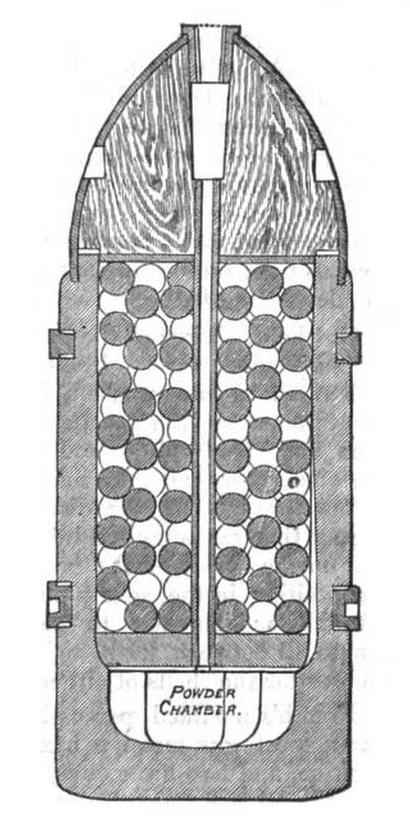 Section of Boxer's shrapnel for rifled ordnance